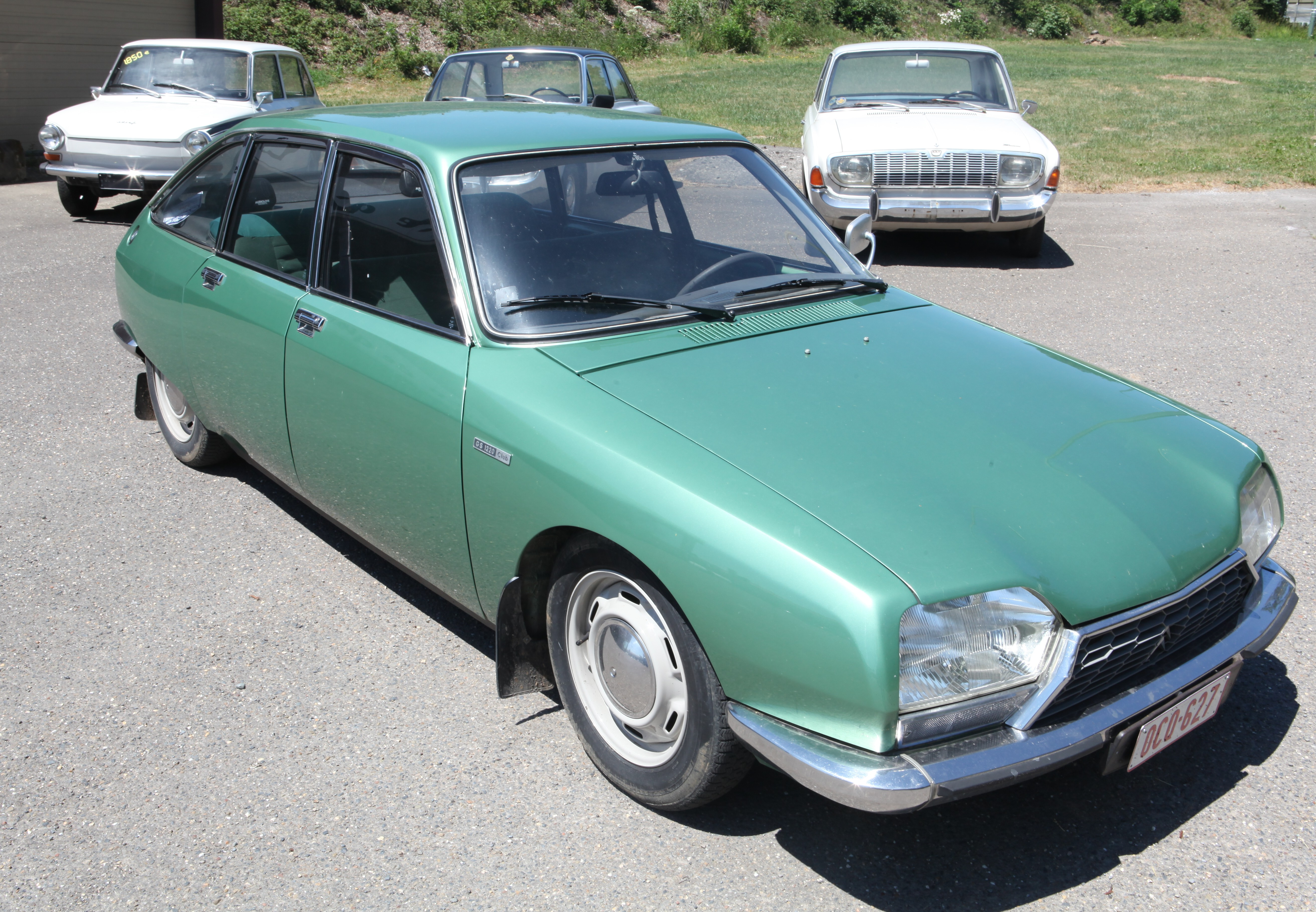 Citroën GS 1220 Club